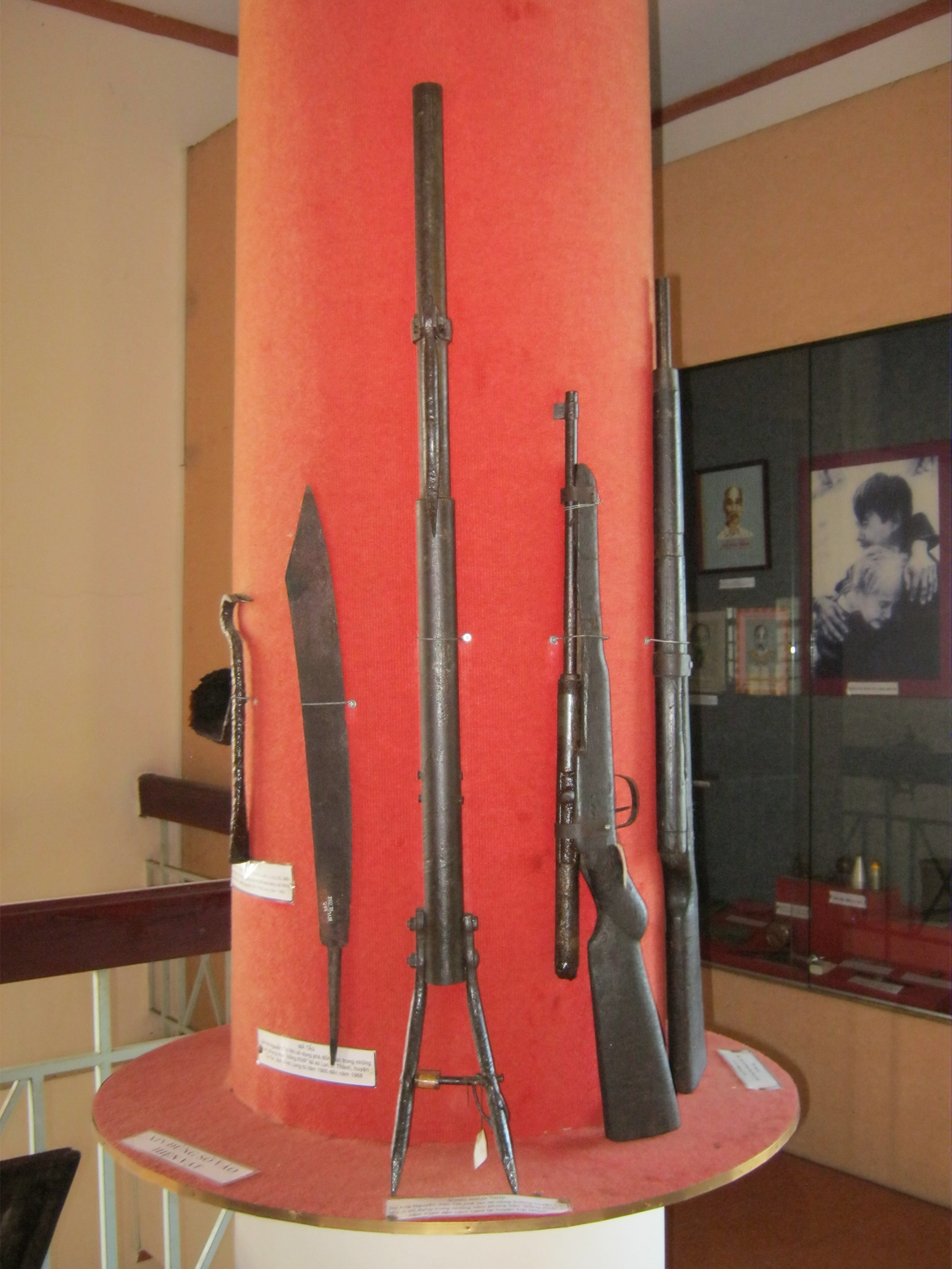 A number of Viet Cong military weapons currently on display in the Museum of Vinh Long.